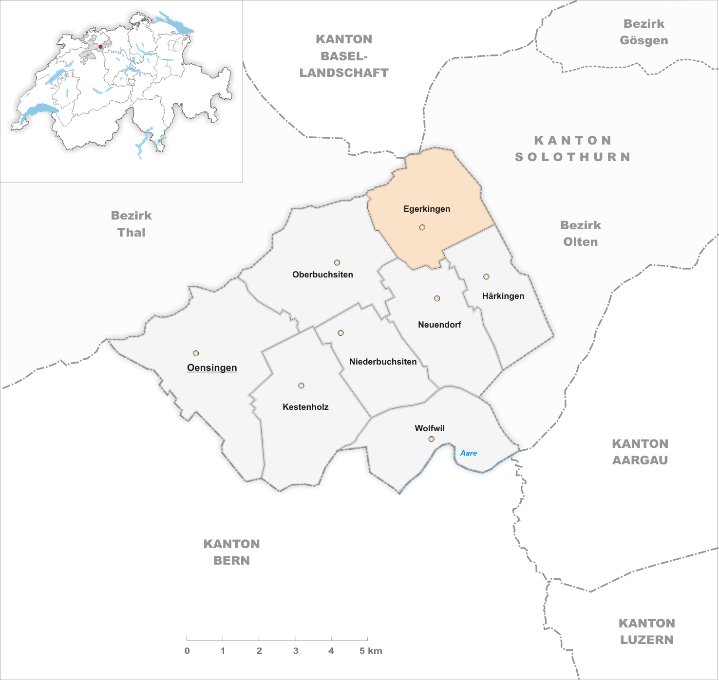 Municipality Egerkingen